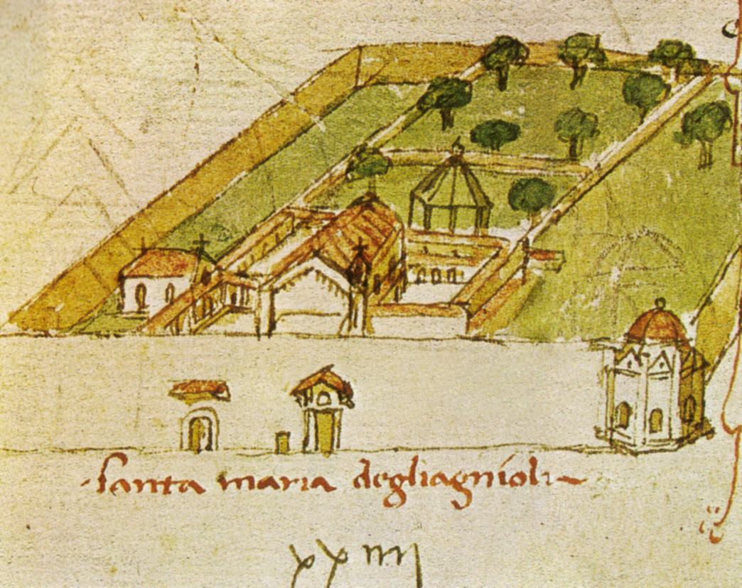 Depiction of Santa Maria degli Angeli from the Codice Rustici (illuminated manuscript)